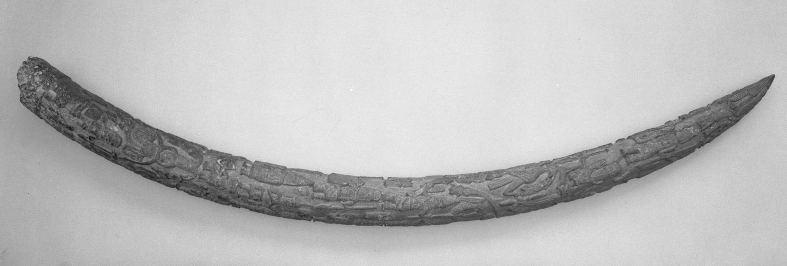 Altar Tusk